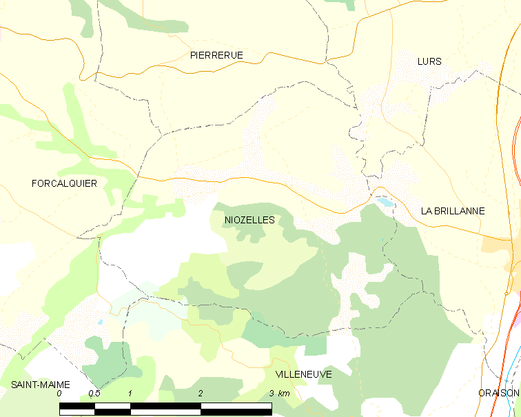 Map commune FR insee code 04138.png Légende